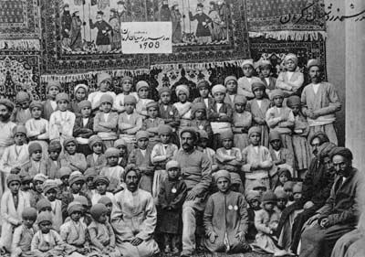 Zoroastrian school children, 1903.